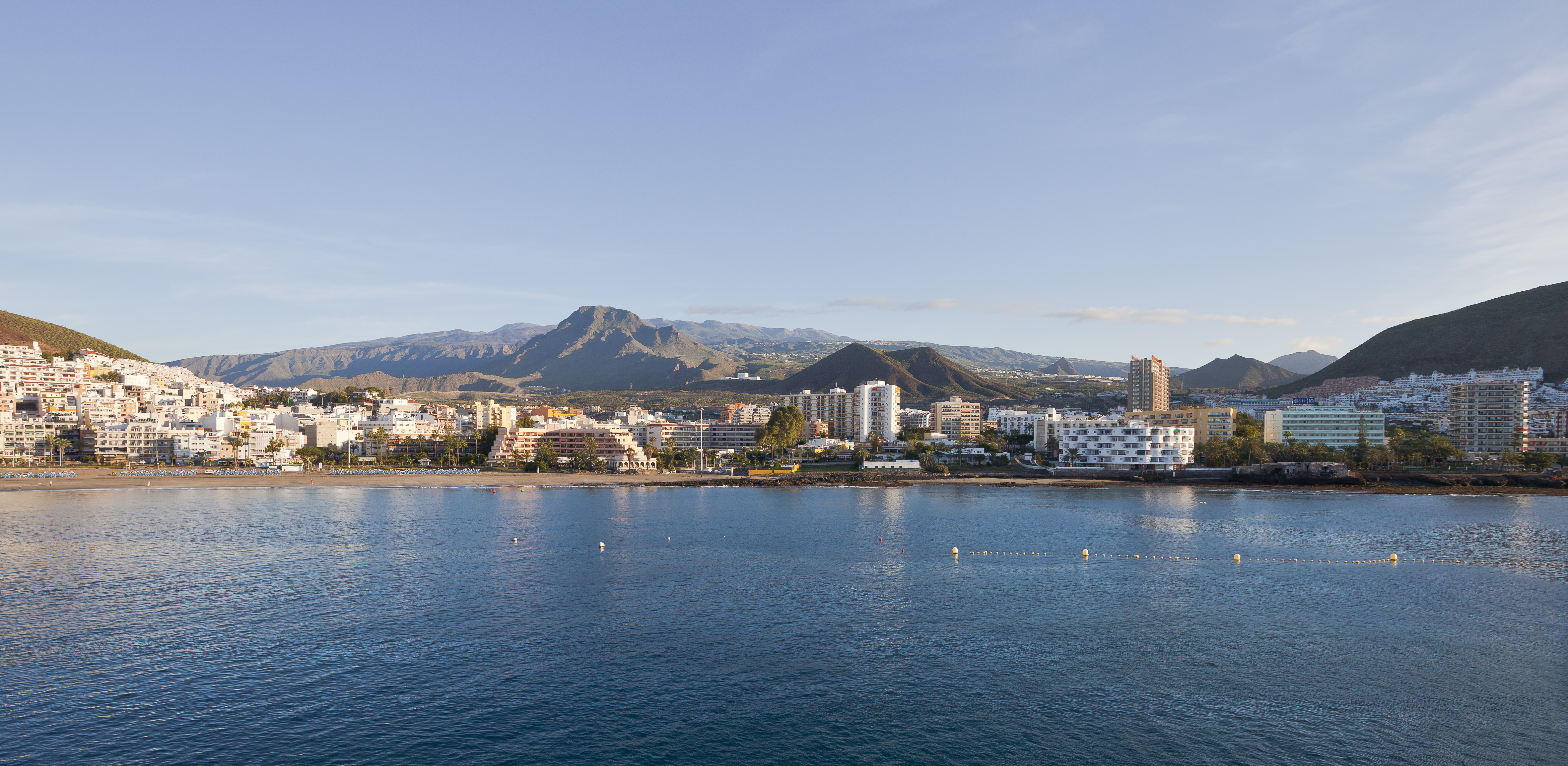 Port of Los Cristianos, Tenerife, Spain